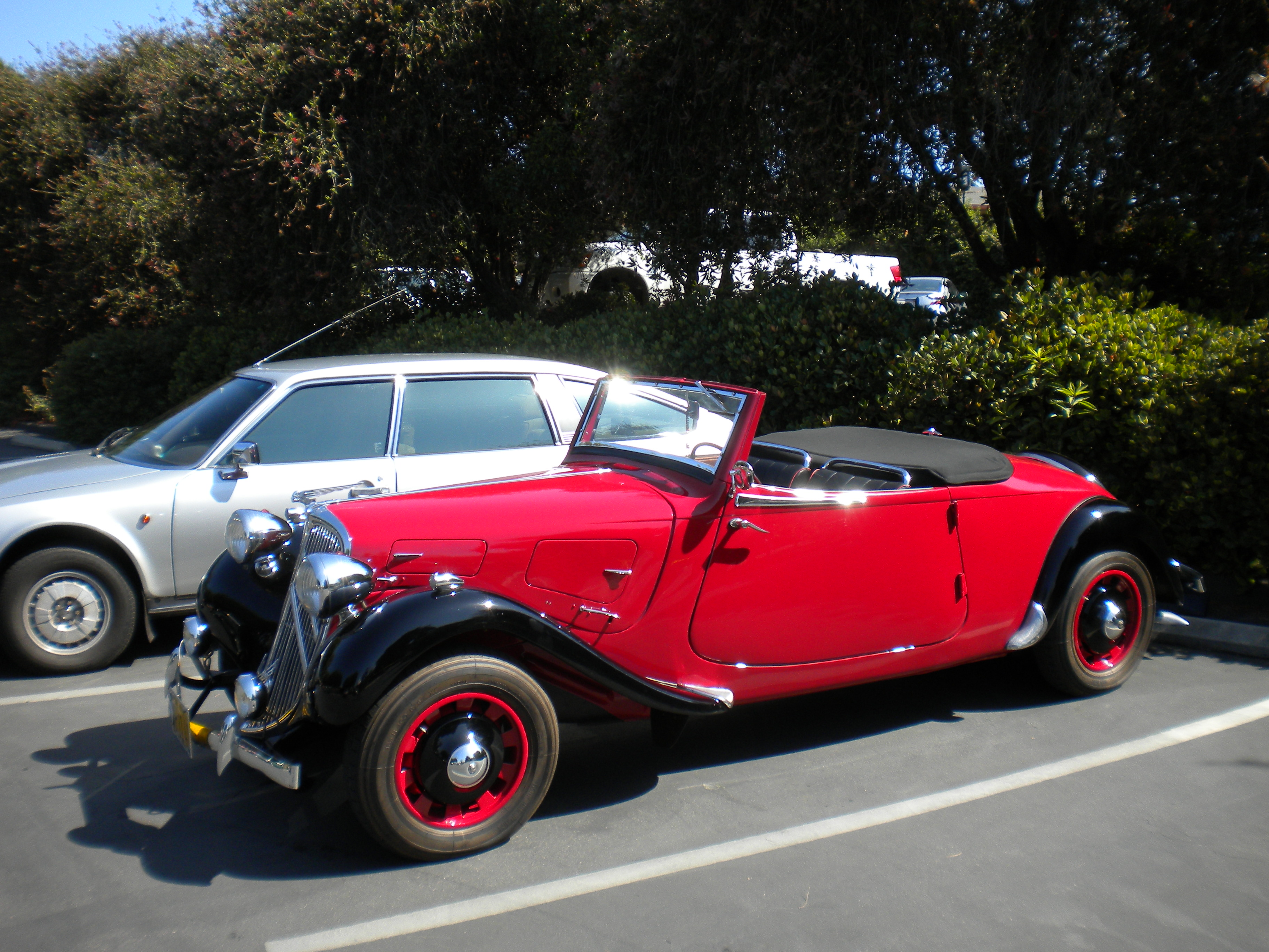 Built 1935-39